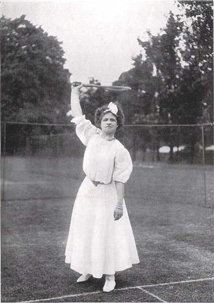 May Sutton (1886-1975), US tennis player, US champion in 1904, first American to win the Wimbledon championships in 1905.